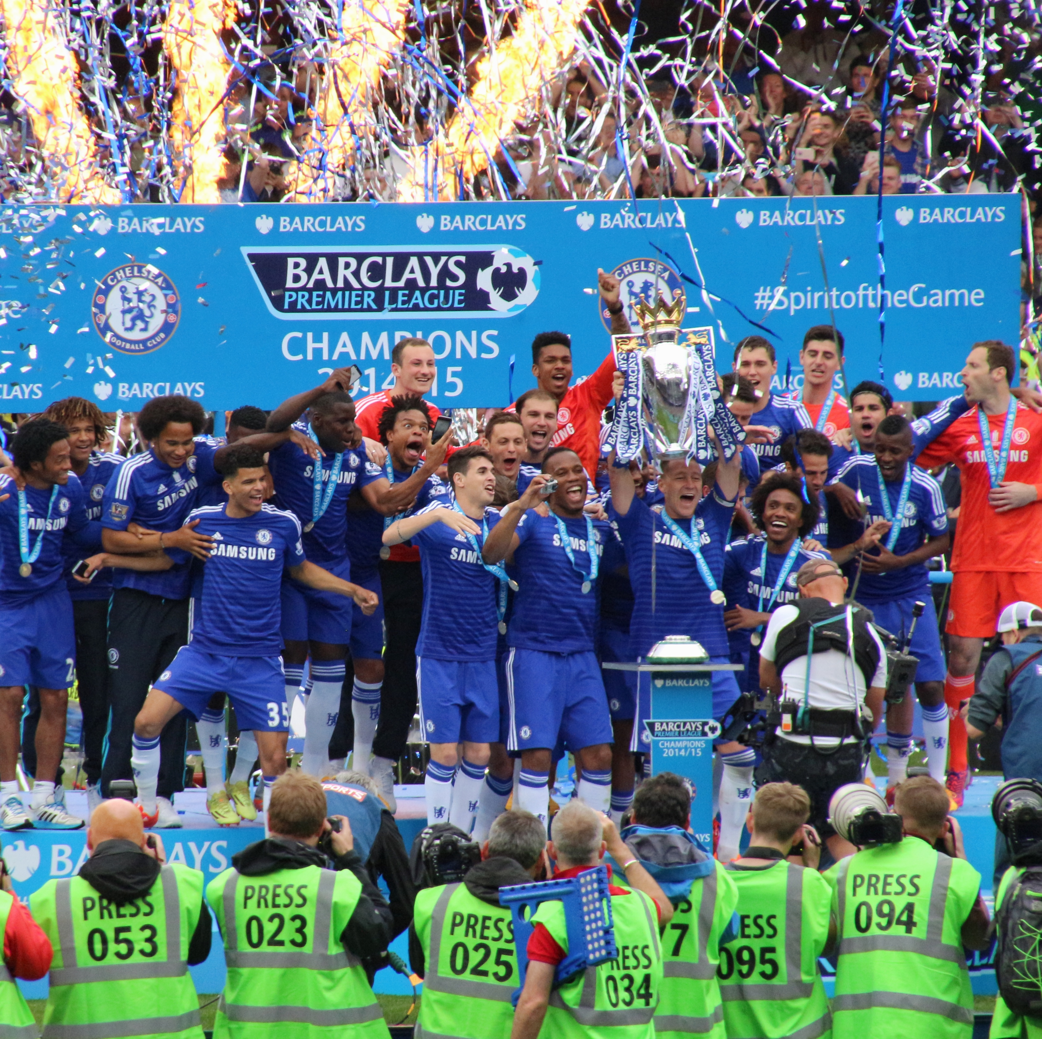 Chelsea 3 Sunderland 1 Champions!